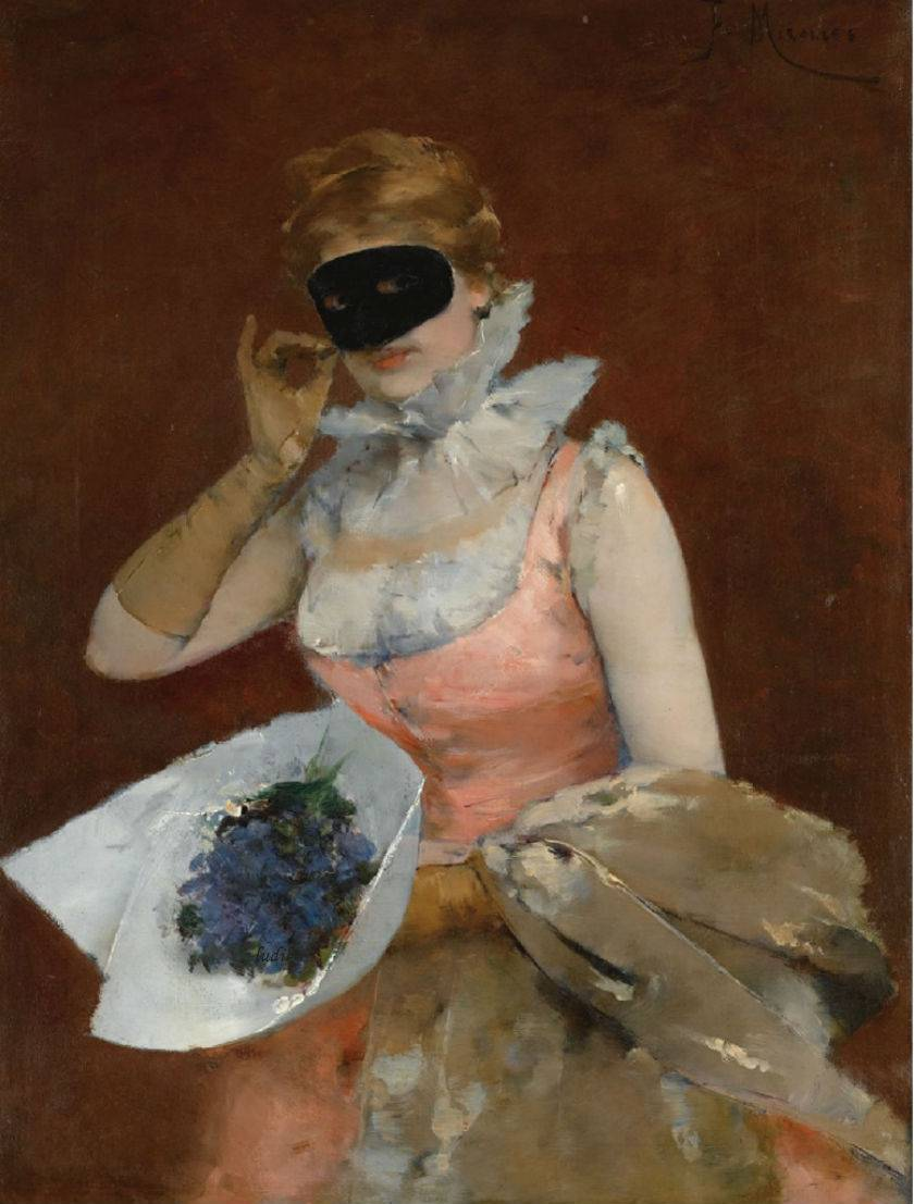 Mujer con máscara